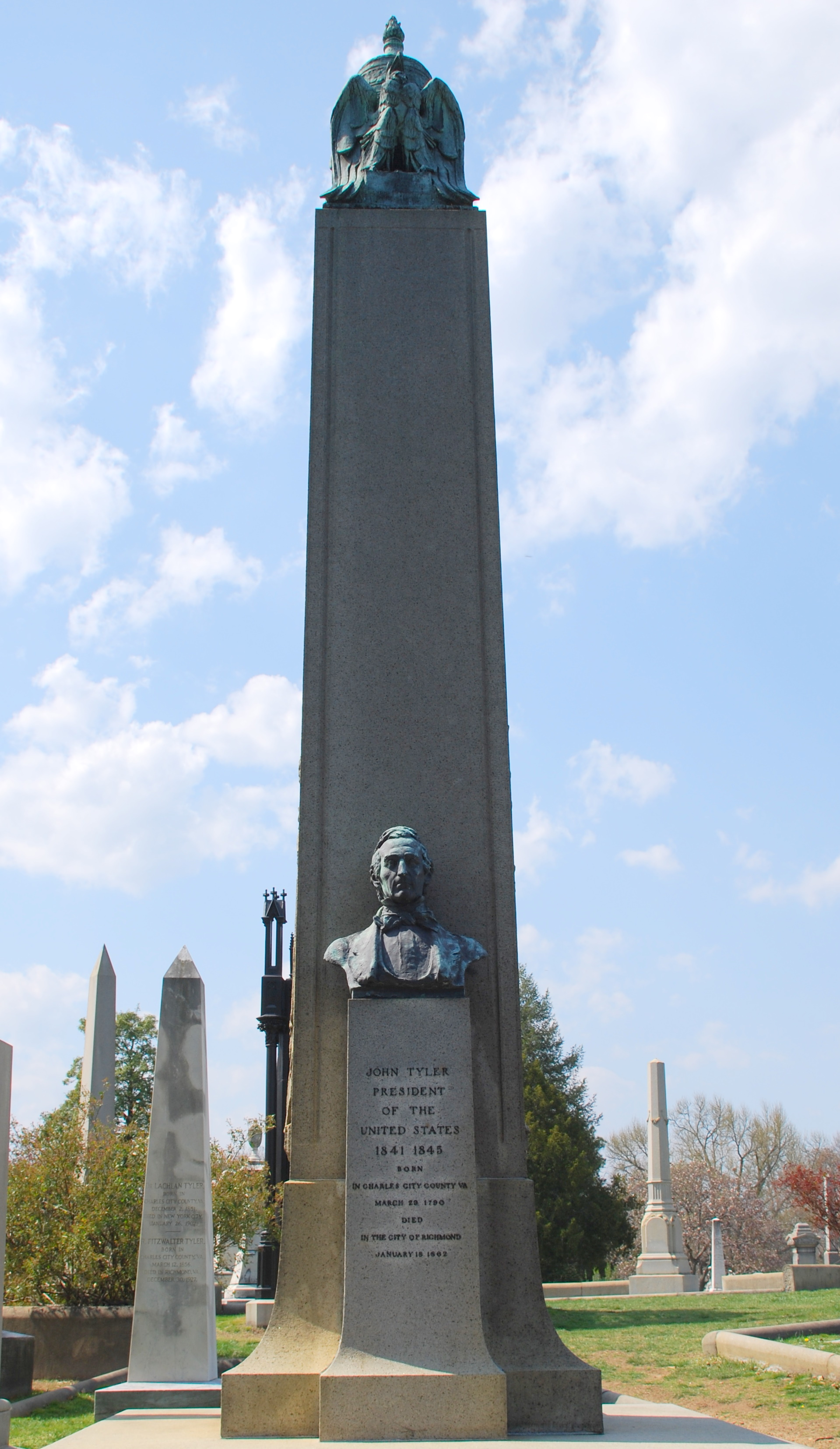 Picture of President John Tyler's grave in the Hollywood Cemetery in Richmond, VA JOHN TYLER PRESIDENT OF THE UNITED STATES 1841 1845 BORN IN CHARLES CITY COUNTY VA MARCH 29 1790 DIED IN THE CITY OF RICHMOND JANUARY 18 1862